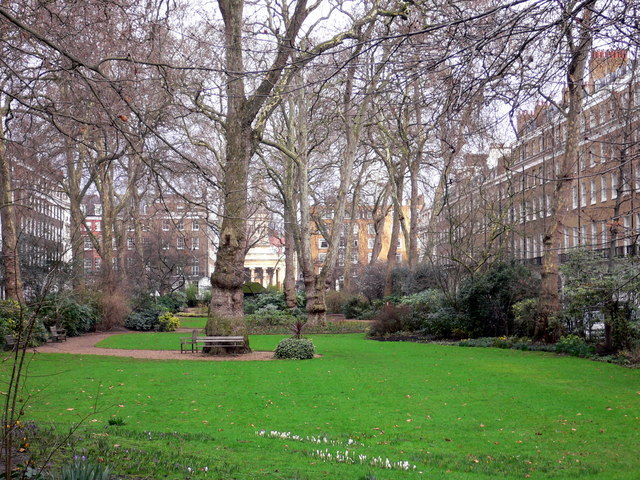 Bryanston Square View of Bryanston Square, looking north